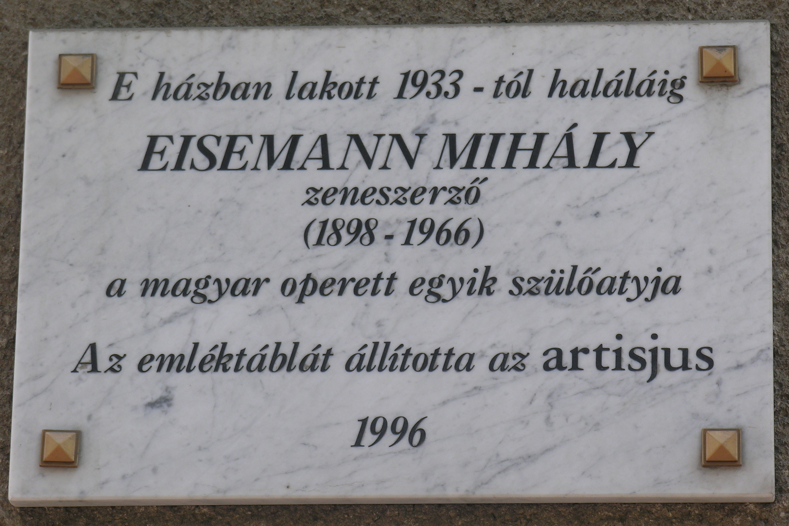 Commemorative plaque of Mihály Eisemann (Budapest District II, Bimbó Street No 3)